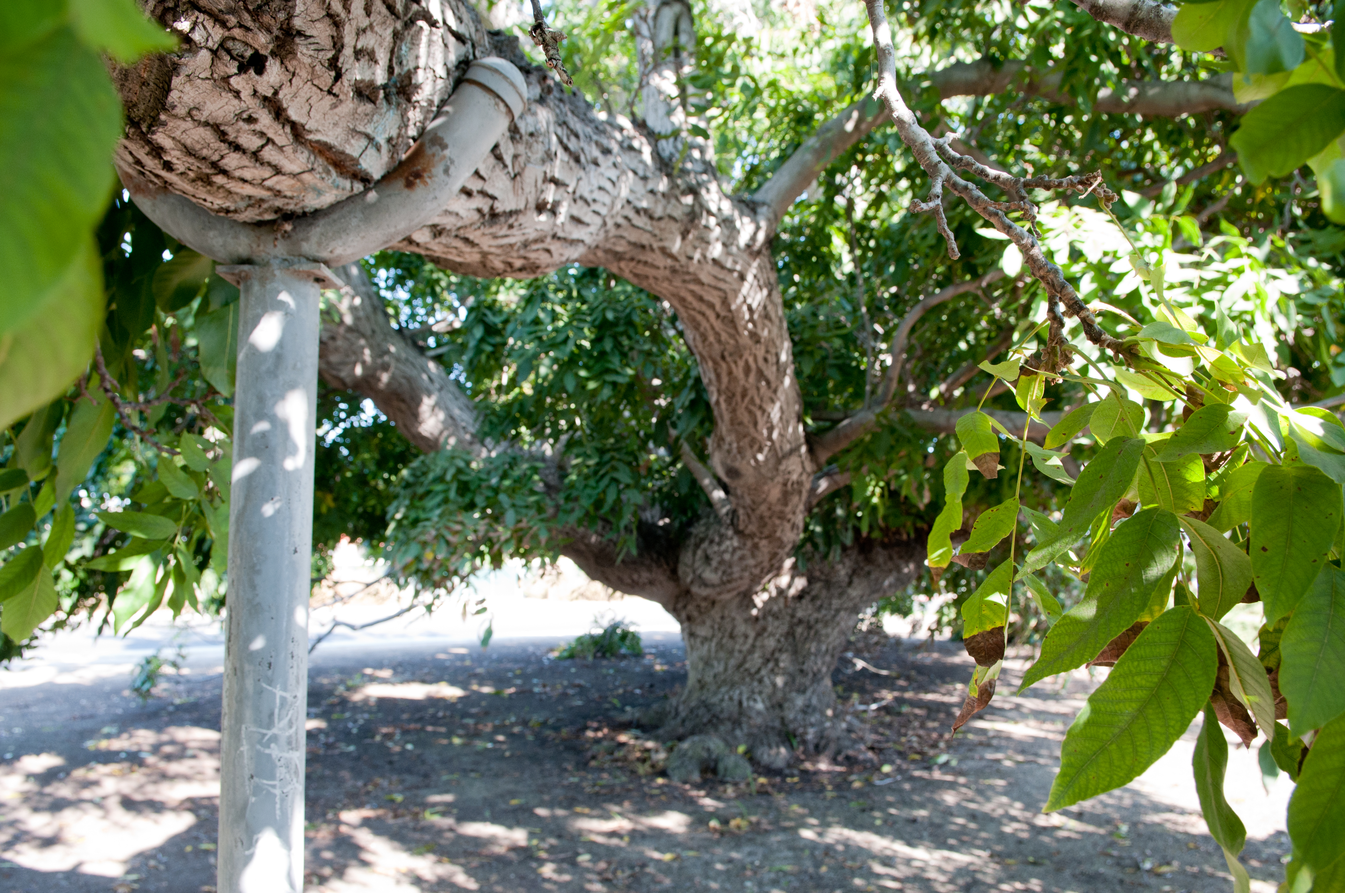 Paradox Hybrid Walnut Tree Support Beams